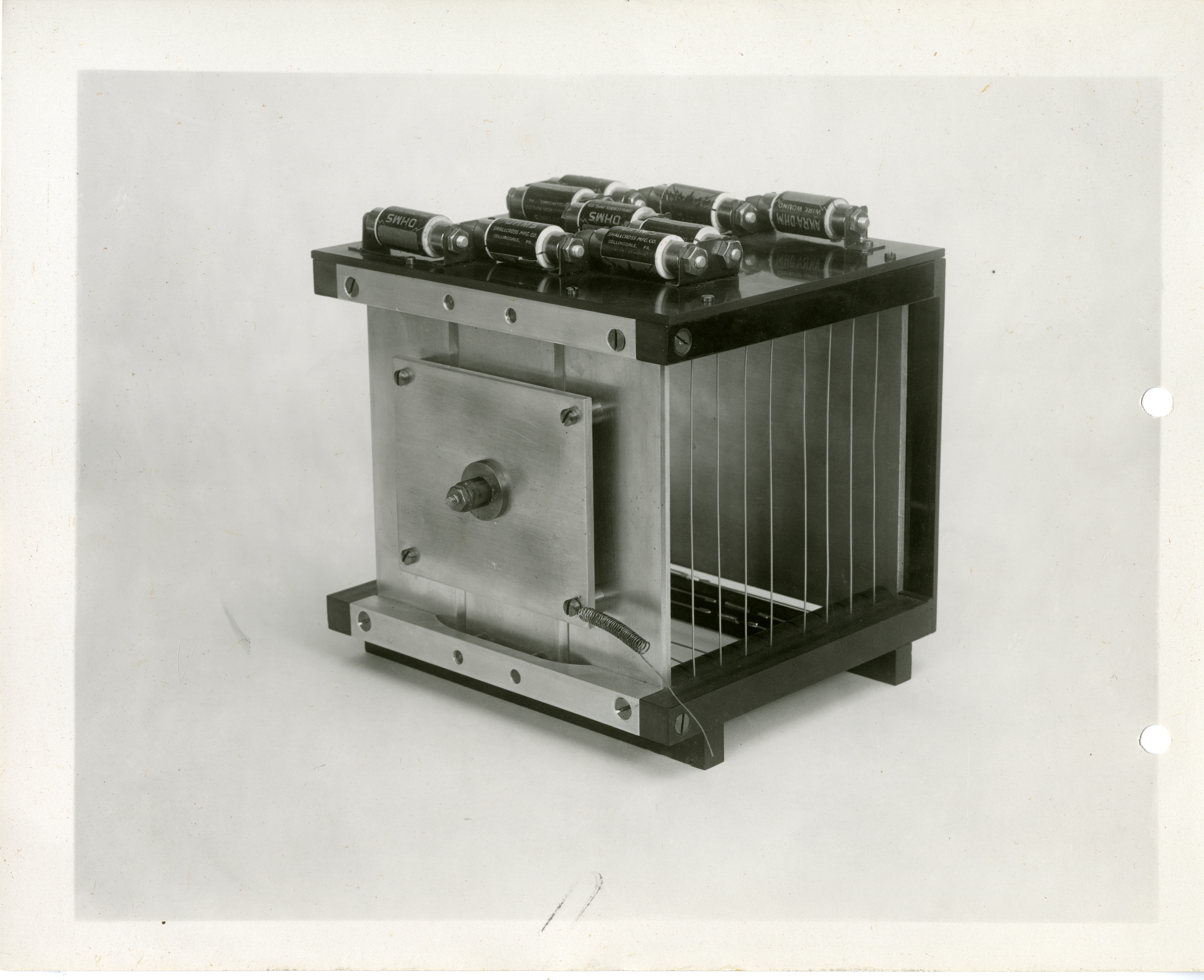 Portable ionization chamber equipment